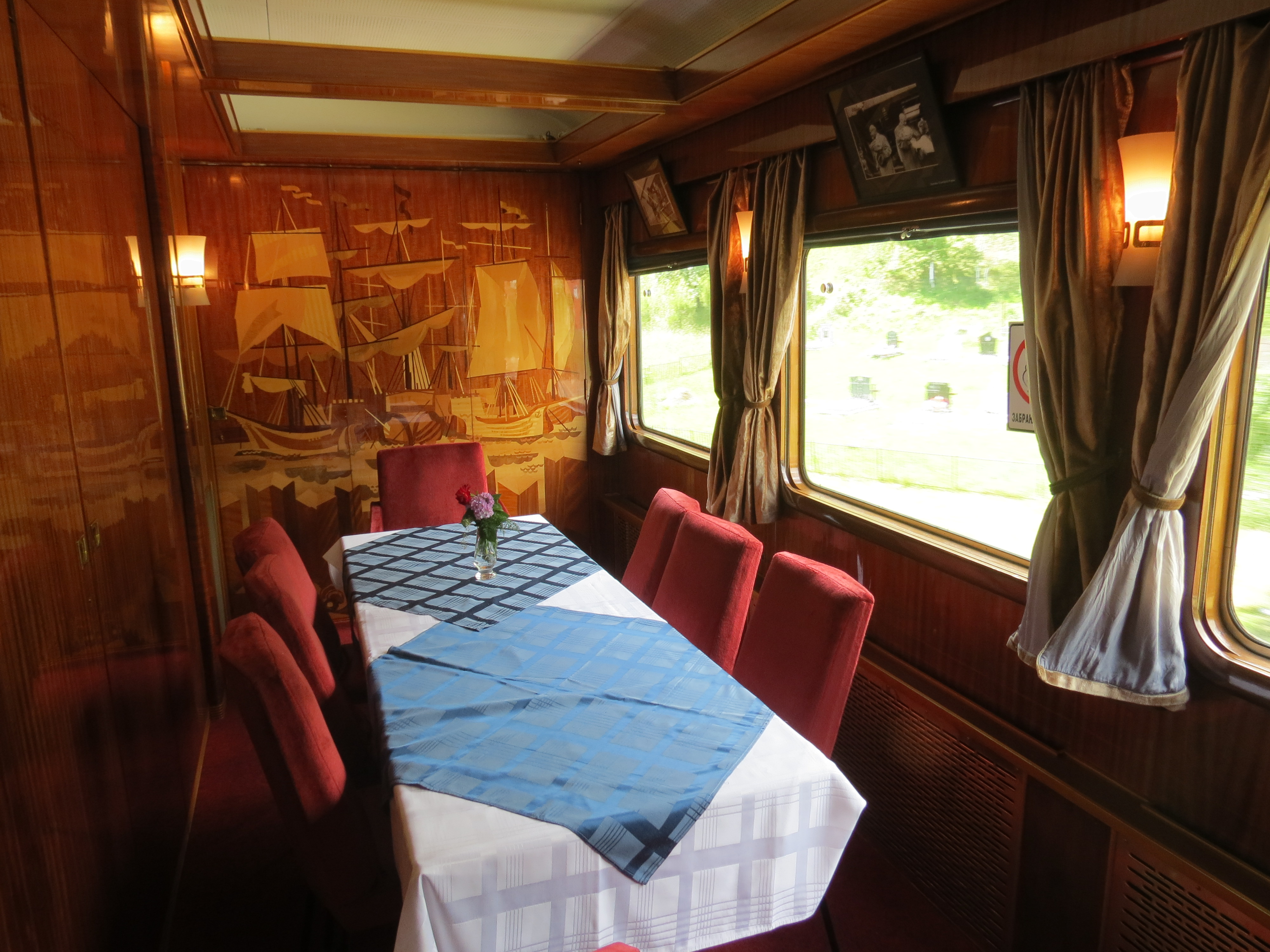 Room with a table next to the bar in Plavi voz, the state train of Yugoslav President Josip Broz Tito.